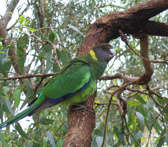 Ringneck Parrot at Neil Hawkins park, in Yellagonga Regional Park, Western Australia